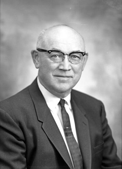 Senator W. C. Raugust, 1965